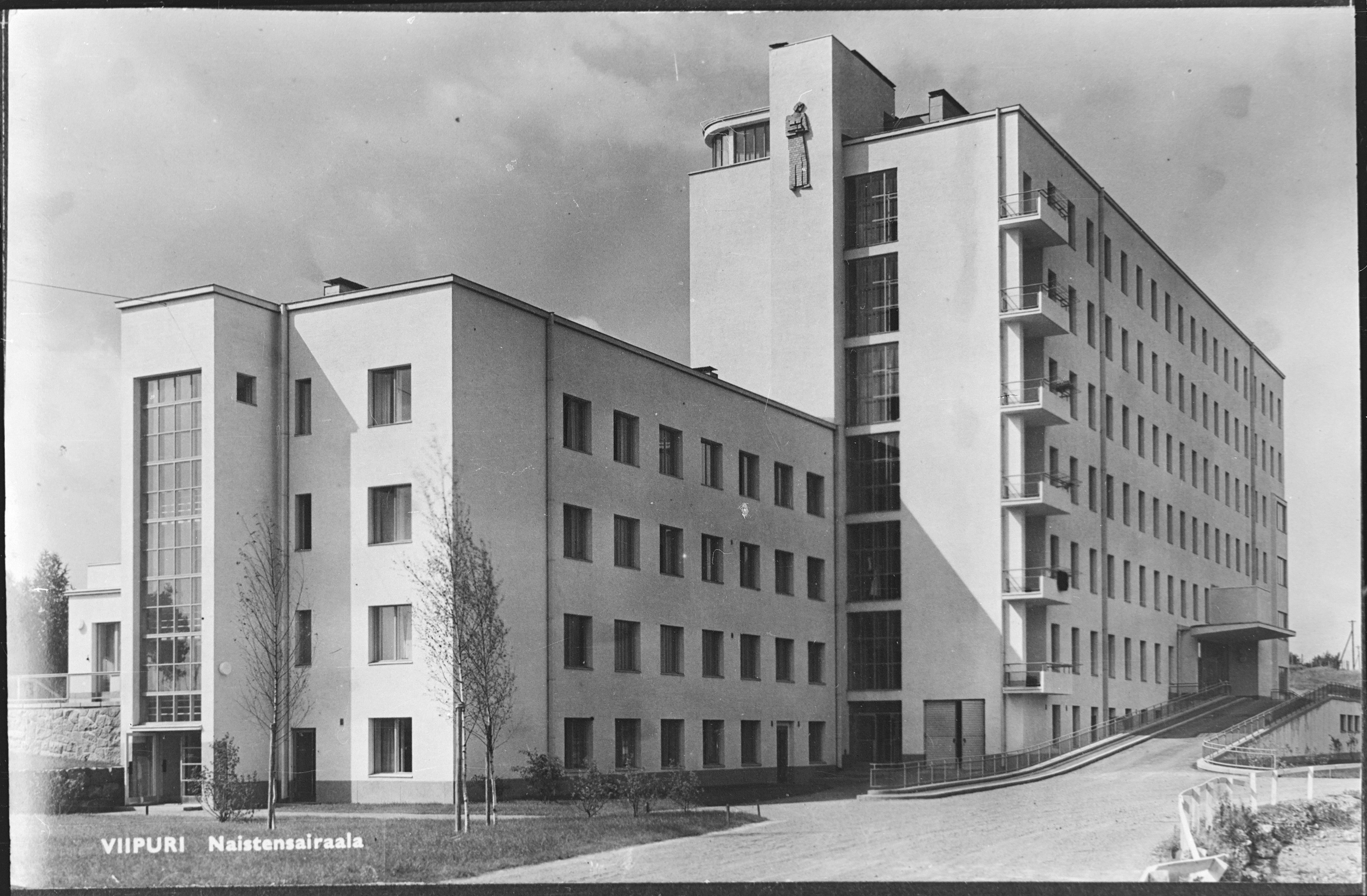 Vyborg Maternity Hospital.